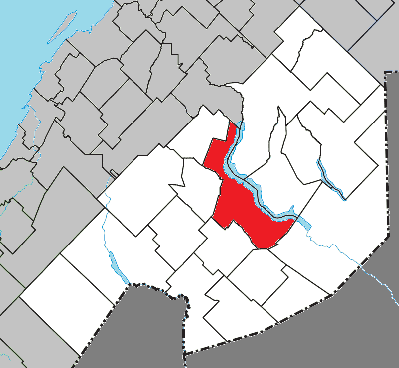 Location of Témiscouata-sur-le-Lac, Quebec within Témiscouata Regional County Municipality.